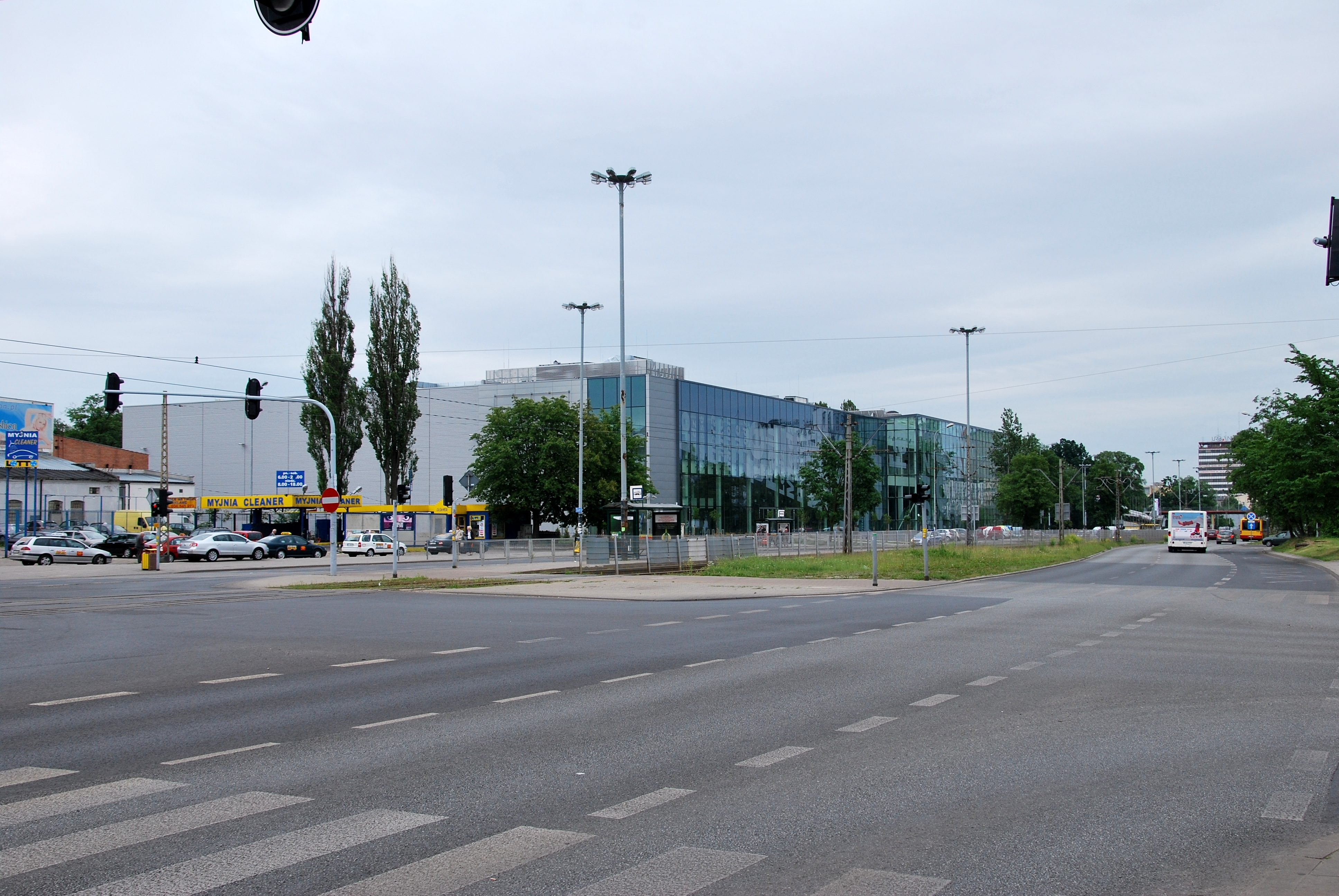 International Łódź Fair center, 4 Politechniki Av.